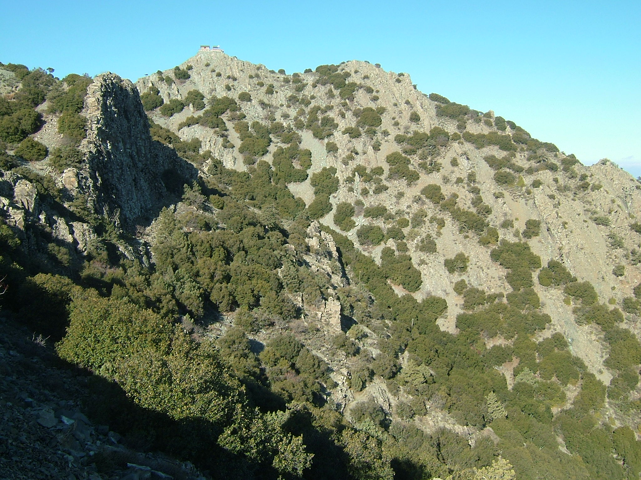 Golden oak (Quercus alnifolia) stands near Madari, Troodos Mountains in west-central Cyprus.